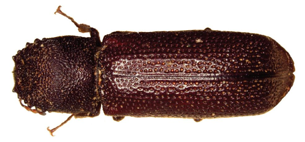 Heterobostrychus aequalis, dorsal view of female.